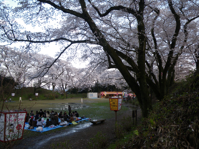 Ruins of Ōtawara Castle. Ōtawara, Tochigi, Japan.